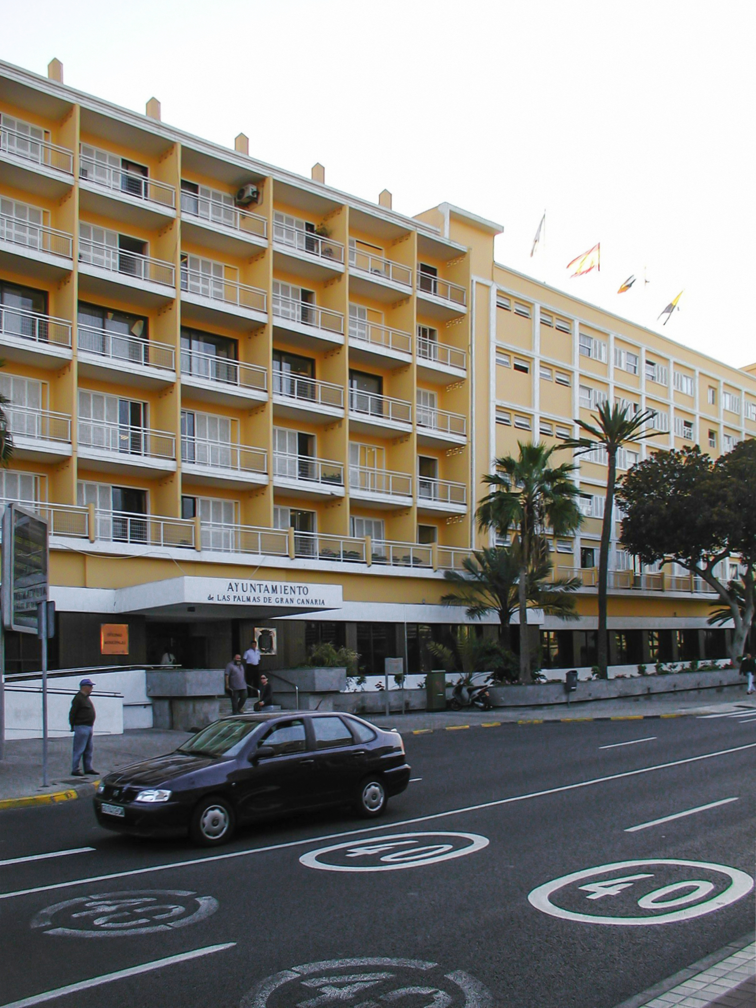 Main facade of the Municipal Offices of the City council of Las Palmas de Gran Canaria. Gran Canaria, Canary Islands. Spain.